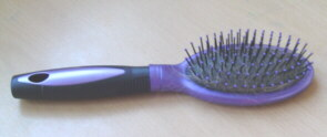 A hairbrush.